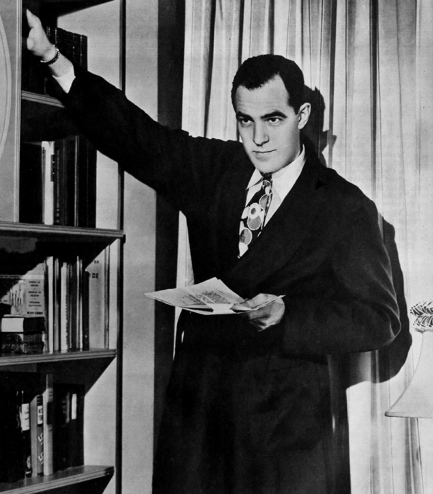 Photo of Karl Weber as Gary Bennett in The Strange Romance of Evelyn Winters. A search for renewals was done in publications for the years 1972 and 1973 Two issues from 1945 were renewed-the April and May issues, but no others. This photo is from the July 1945 issue; there's no evidence of renewed copyright for the other 1945 issues of the magazine.